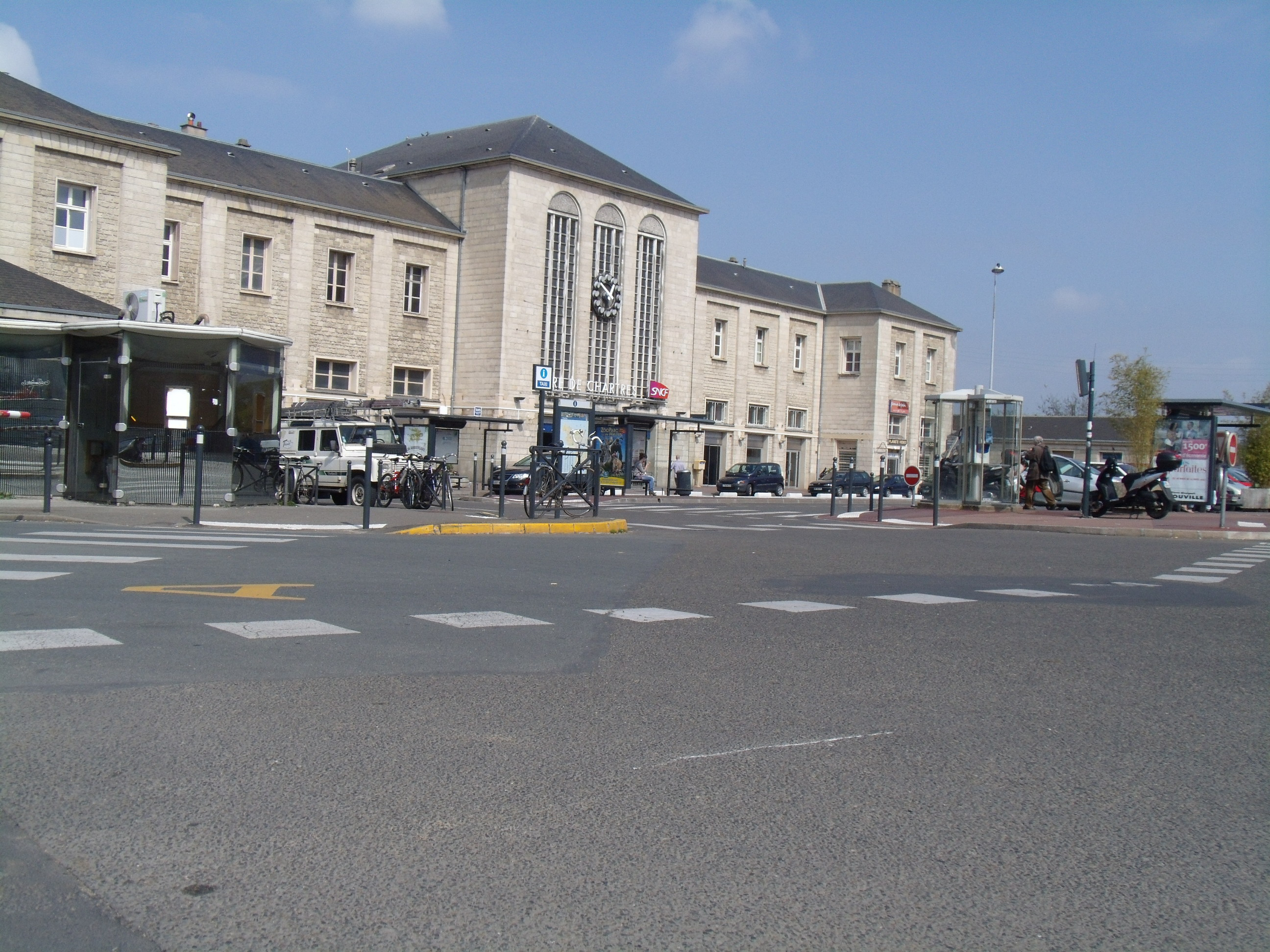 Chartres station in 2011